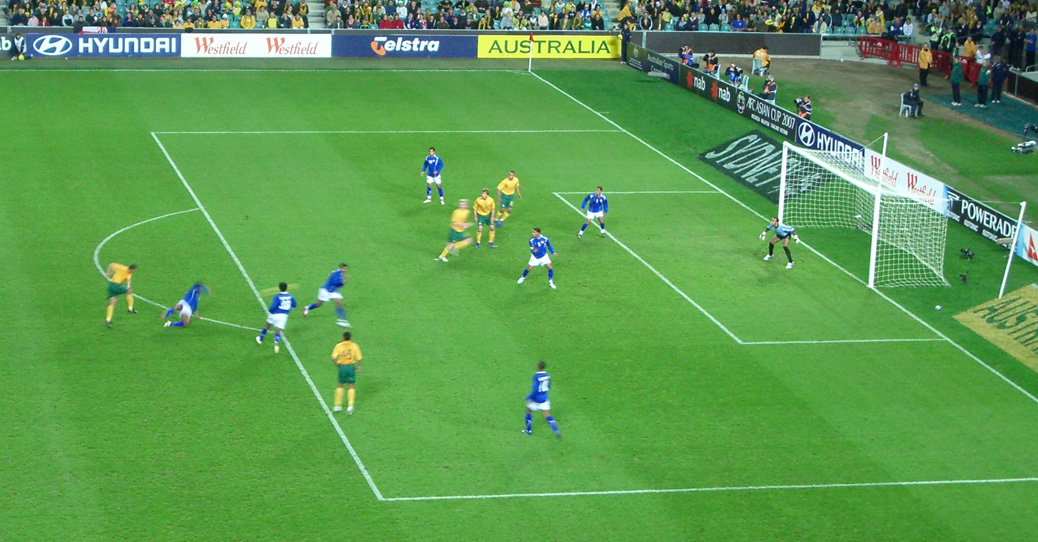 I took this photo at Aussie Stadium on August 16th, 2006.